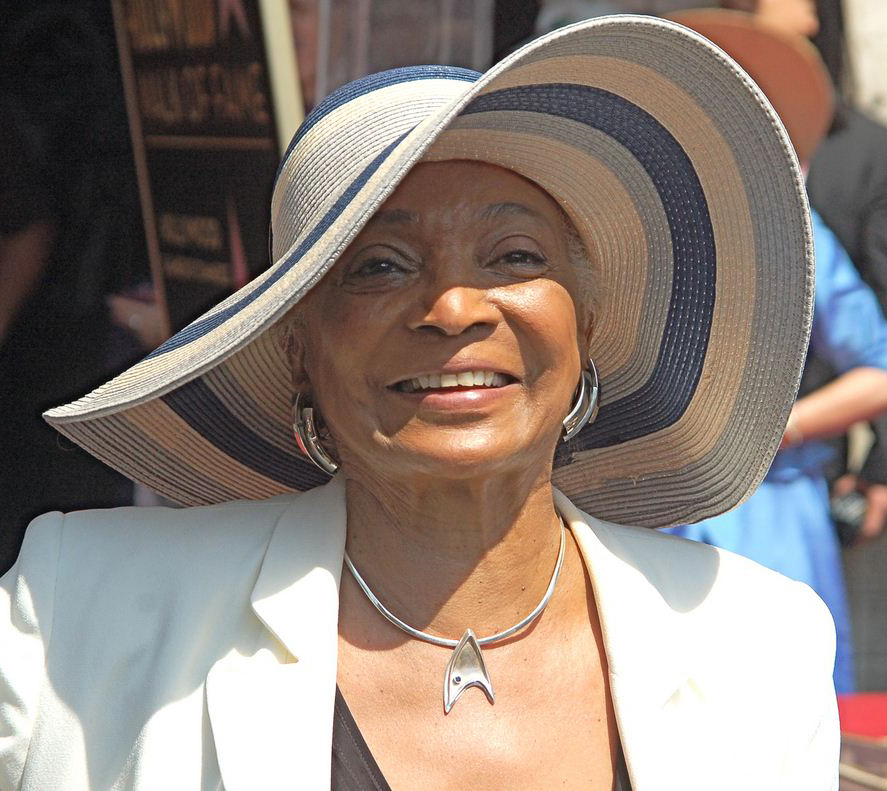 Nichelle Nichols at a ceremony for Walter Koenig to receive a star on the Hollywood Walk of Fame.